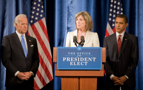 Carol Browner (middle) speaking at a press conference with U.S. President-elect Barack Obama (right) and Vice President-elect Joe Biden (left).